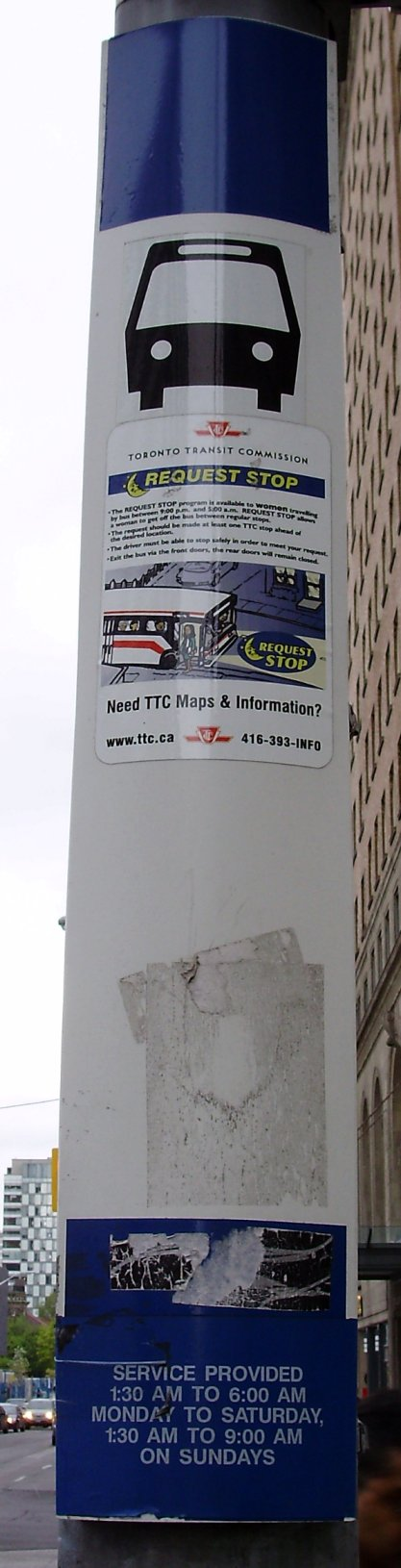 A Blue Night Network bus stop at the intersection of Avenue Road and Bloor Street in Toronto.